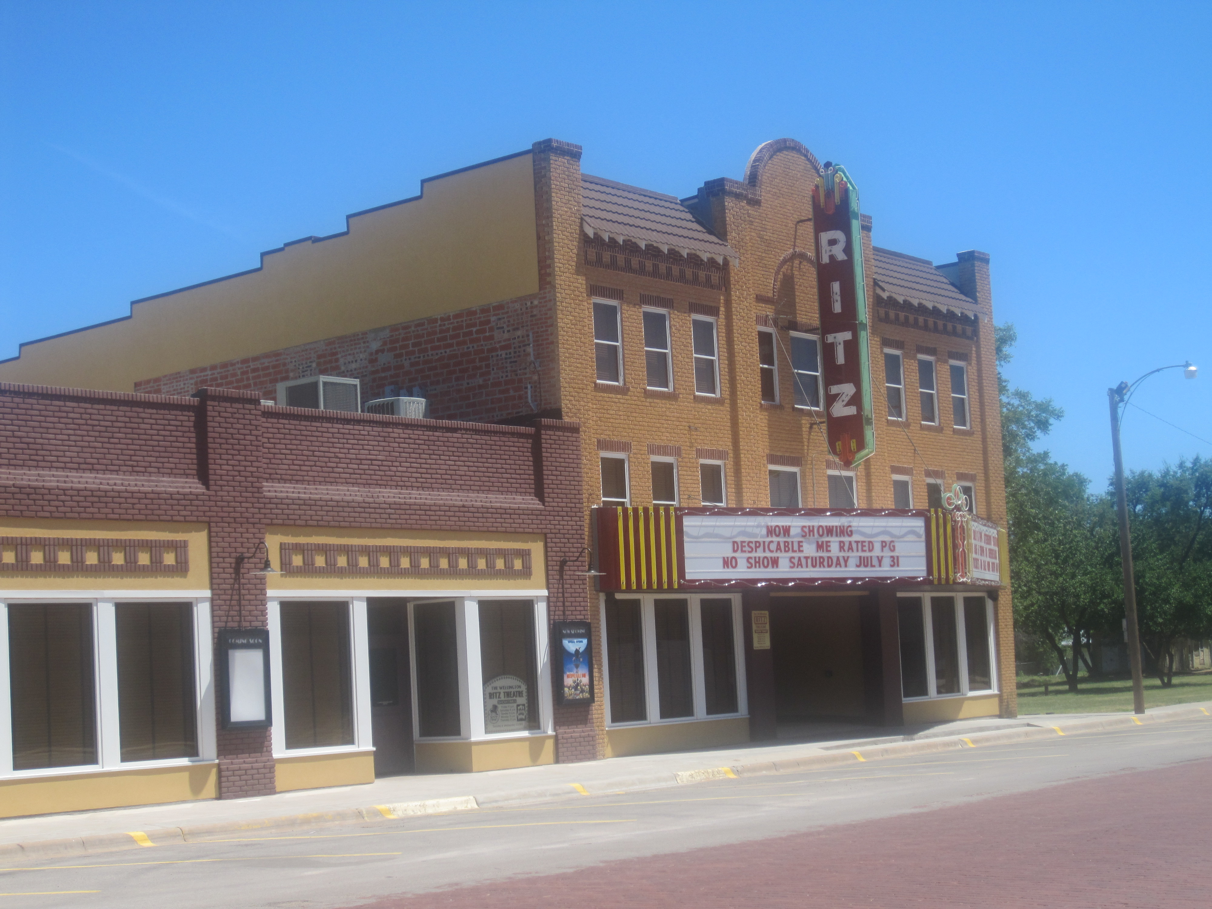 I took photo with Canon camera in Wellington, TX.